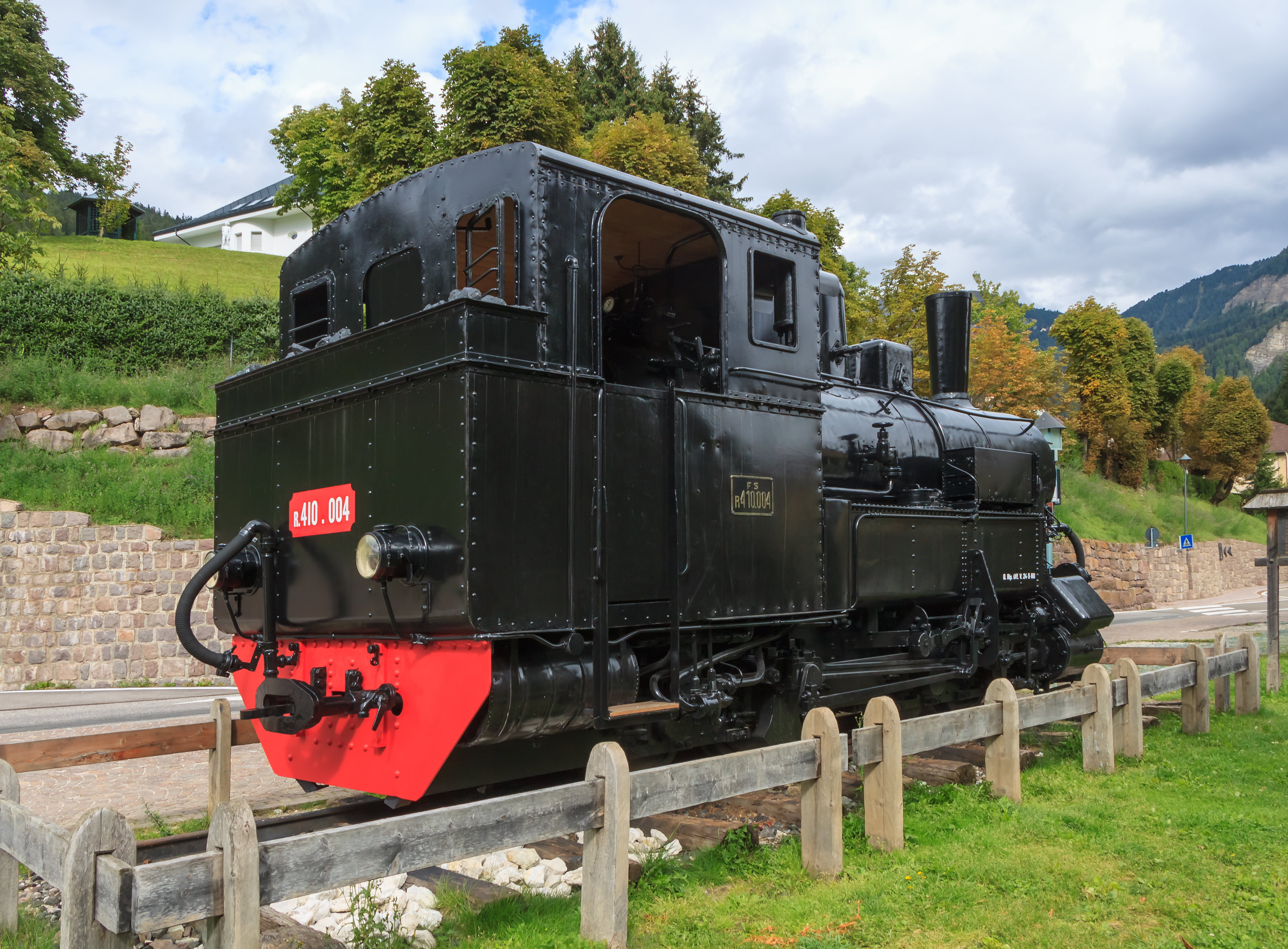 Locomotive FS R.410.004 of the Val Gardena Railway (restored and with new livery, back and right side) on the area of the formerly railway station of Urtijëi, South Tyrol, Italy.